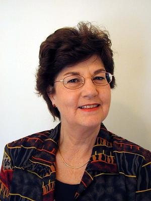 A photo of Judy Thönell, Secretary General of the International Society for Music Education